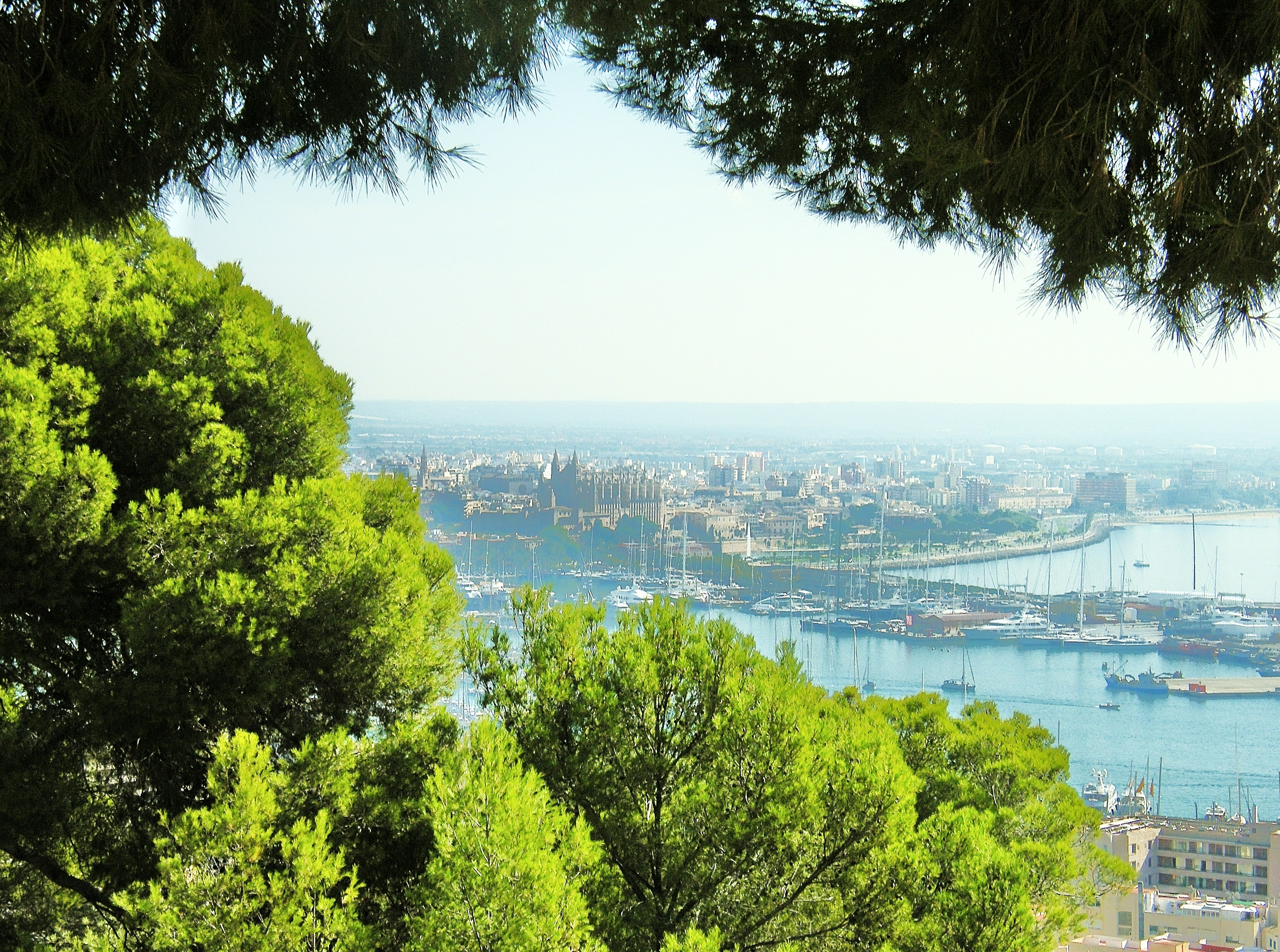 Palma de Mallorca